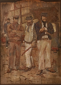 Press Gang Resturant Sign, Hafifax Nova Scotia